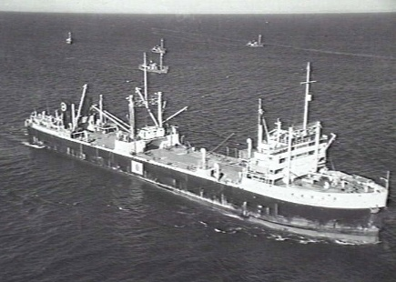 Japanese whaling factory Tonan Maru No.3, with national flag painted on her side to indicate her neutral status.